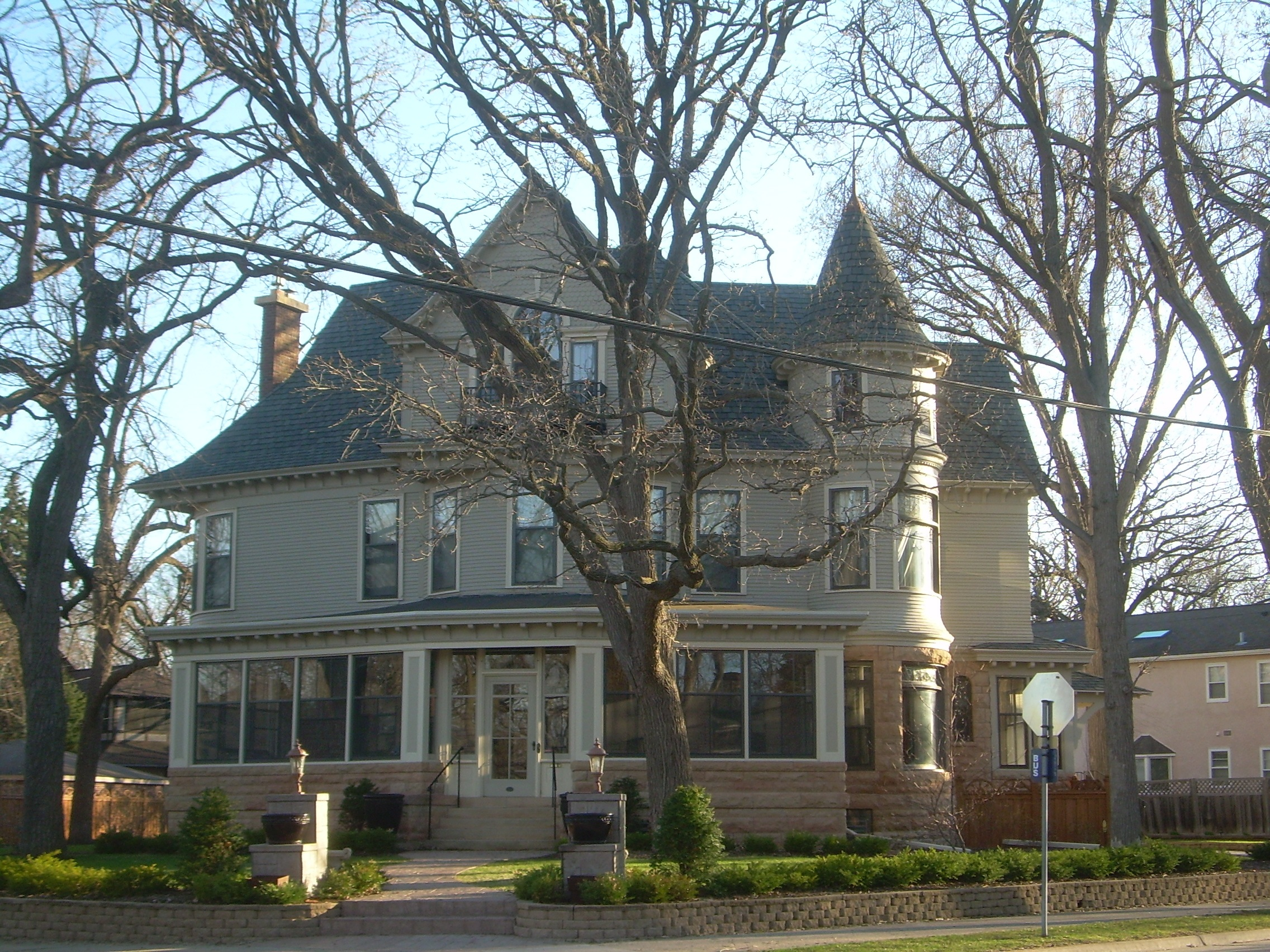 The house used in establishing shots for the Mary Tyler Moore TV series. 2104 Kenwood Parkway, Kenwood, Minneapolis, Minnesota, USA.